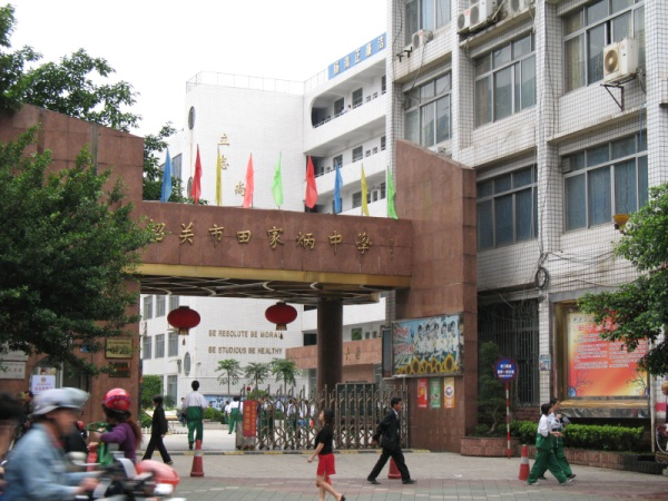 Shaoguan Tianjiabing Middle School